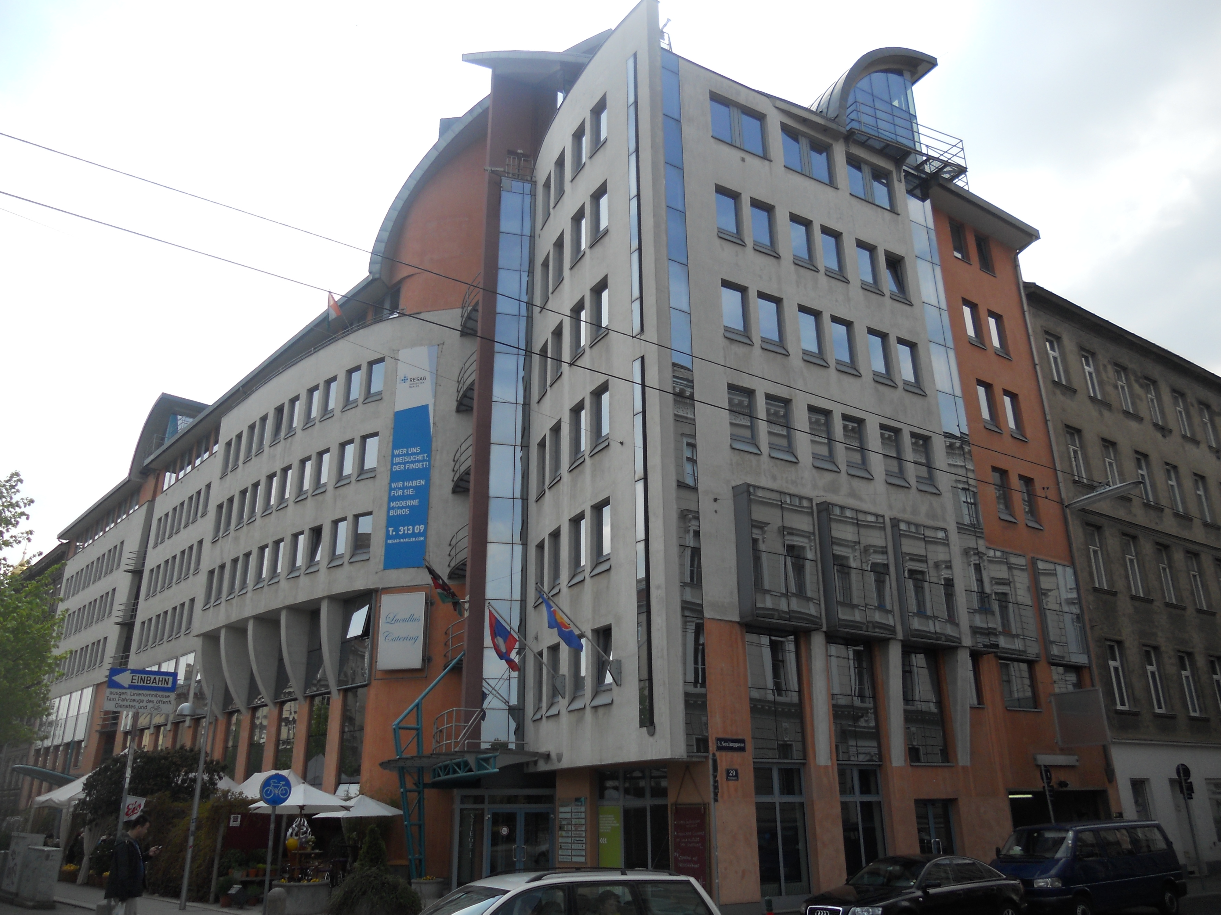 House Neulinggasse 29 in Vienna housing the embassies of Côte d' Ivoire, Kenya and Laos